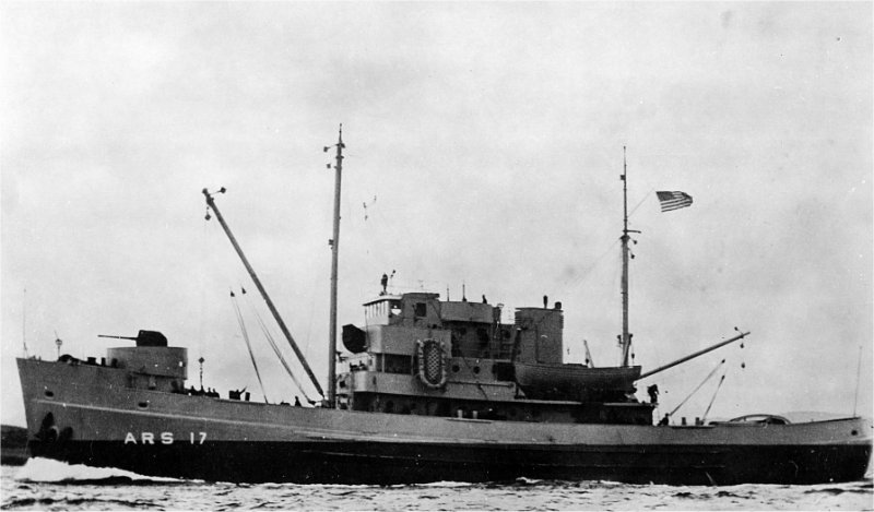 USS Restorer (ARS-17) underway, date and location unknown. US Navy photo